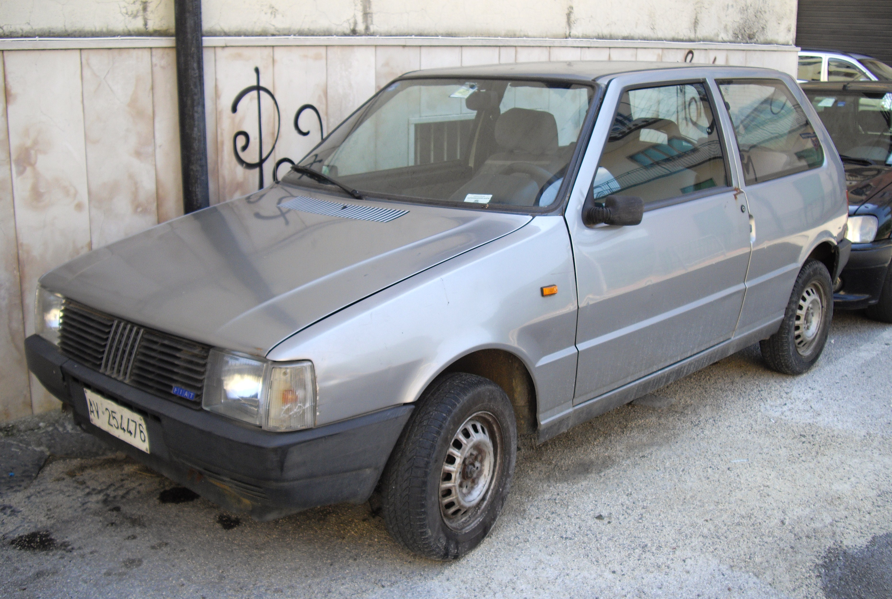 Fiat Uno 60